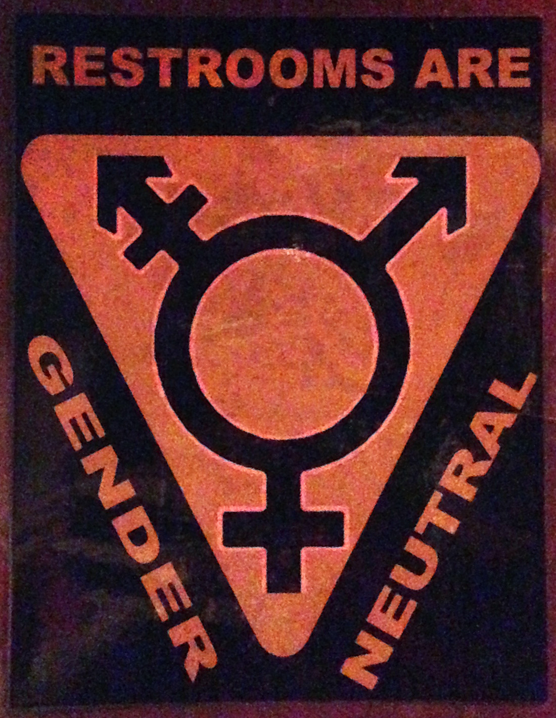 A gender neutral bathroom sign in a nightclub in Oakland, California